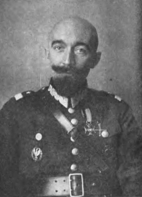 Photo of gen. Tadeusz Malinowski taken before 1932.